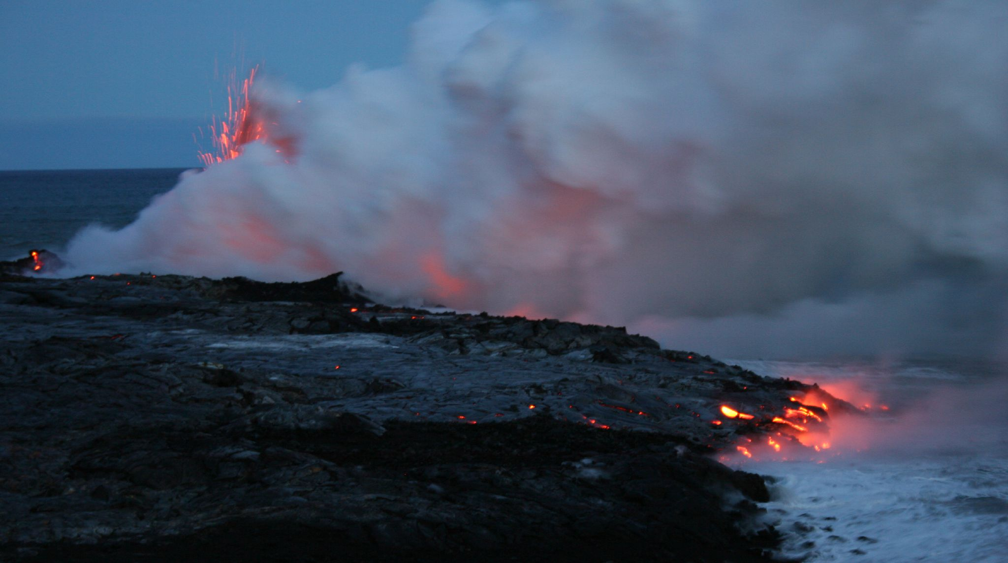 Lava entering the sea, expanding the big island of Hawaii.